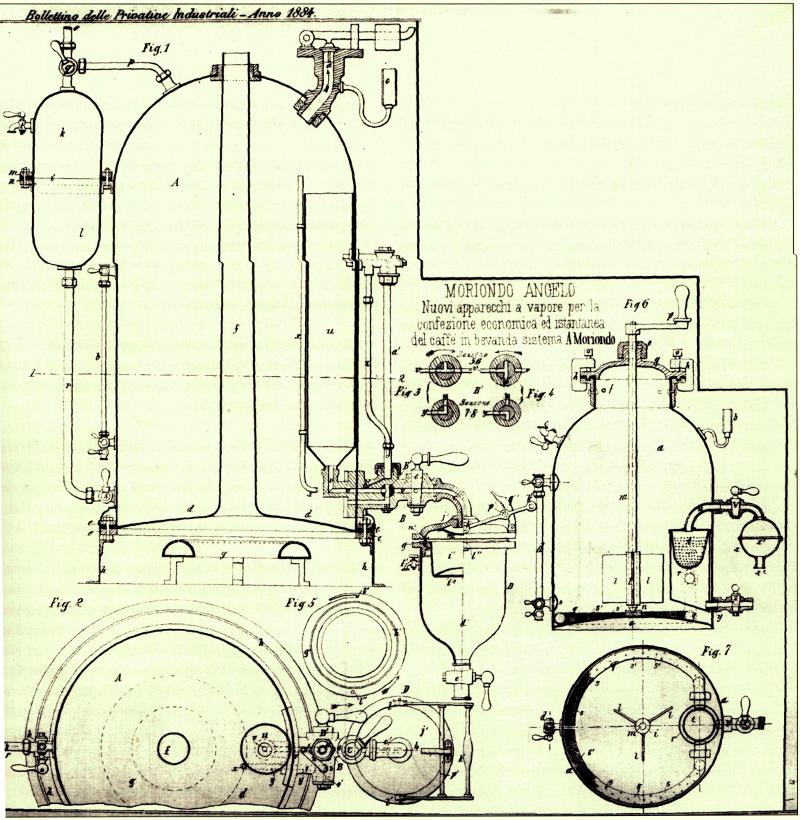 First patent (vol. 33 n. 256) for the Espresso Machine, by Mr. Angelo Moriondo, dated May 16, 1884 and titled "Nuovi apparecchi a vapore per la confezione economica ed istantanea del caffè in bevanda. Sistema A. Moriondo"